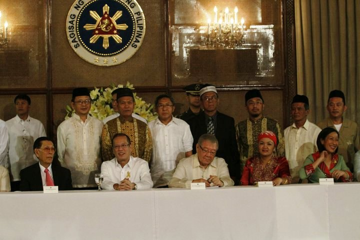 signing ceremony of the postponement of ARMM election 2011.[1]